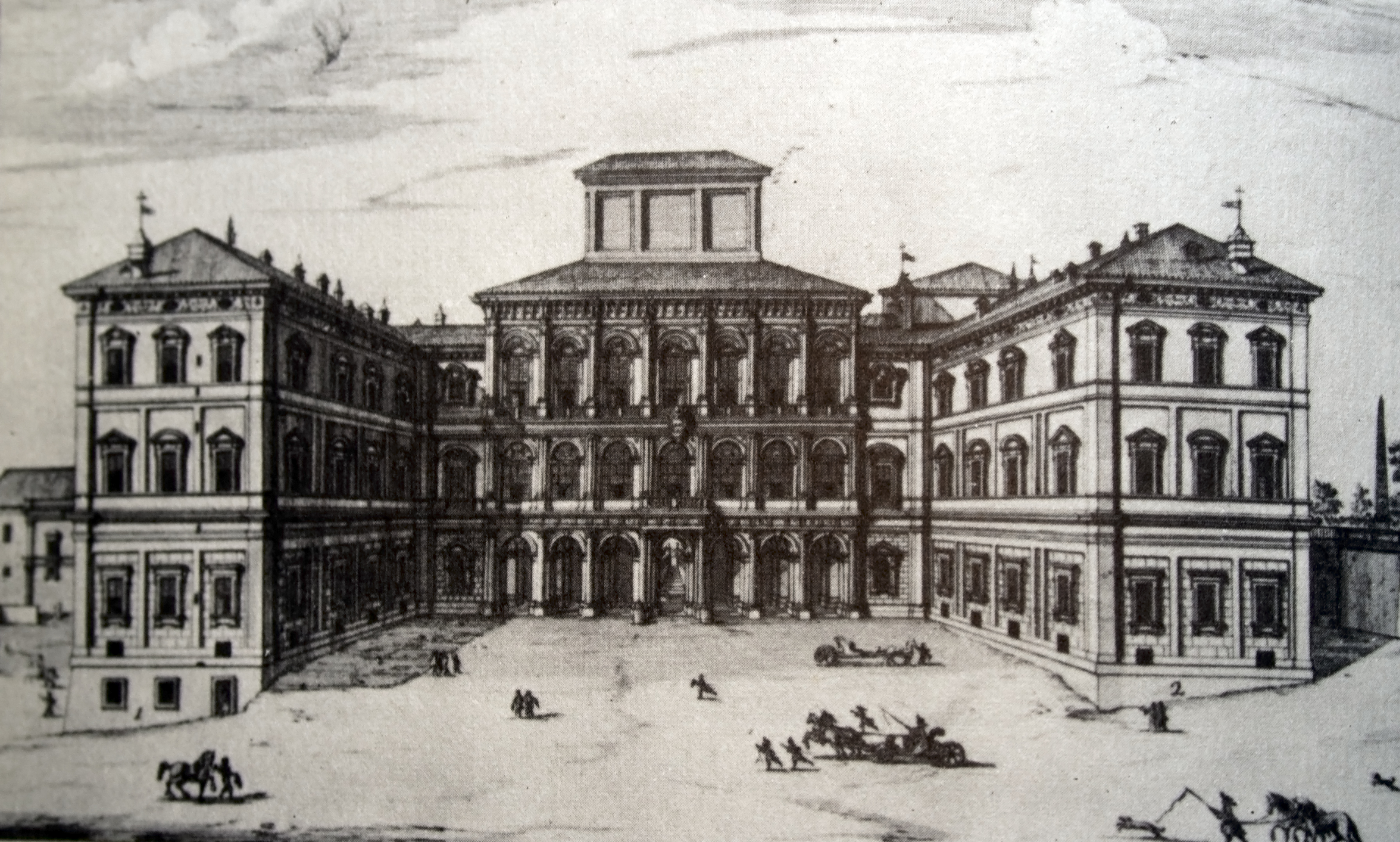 Palace Barberini, Rome